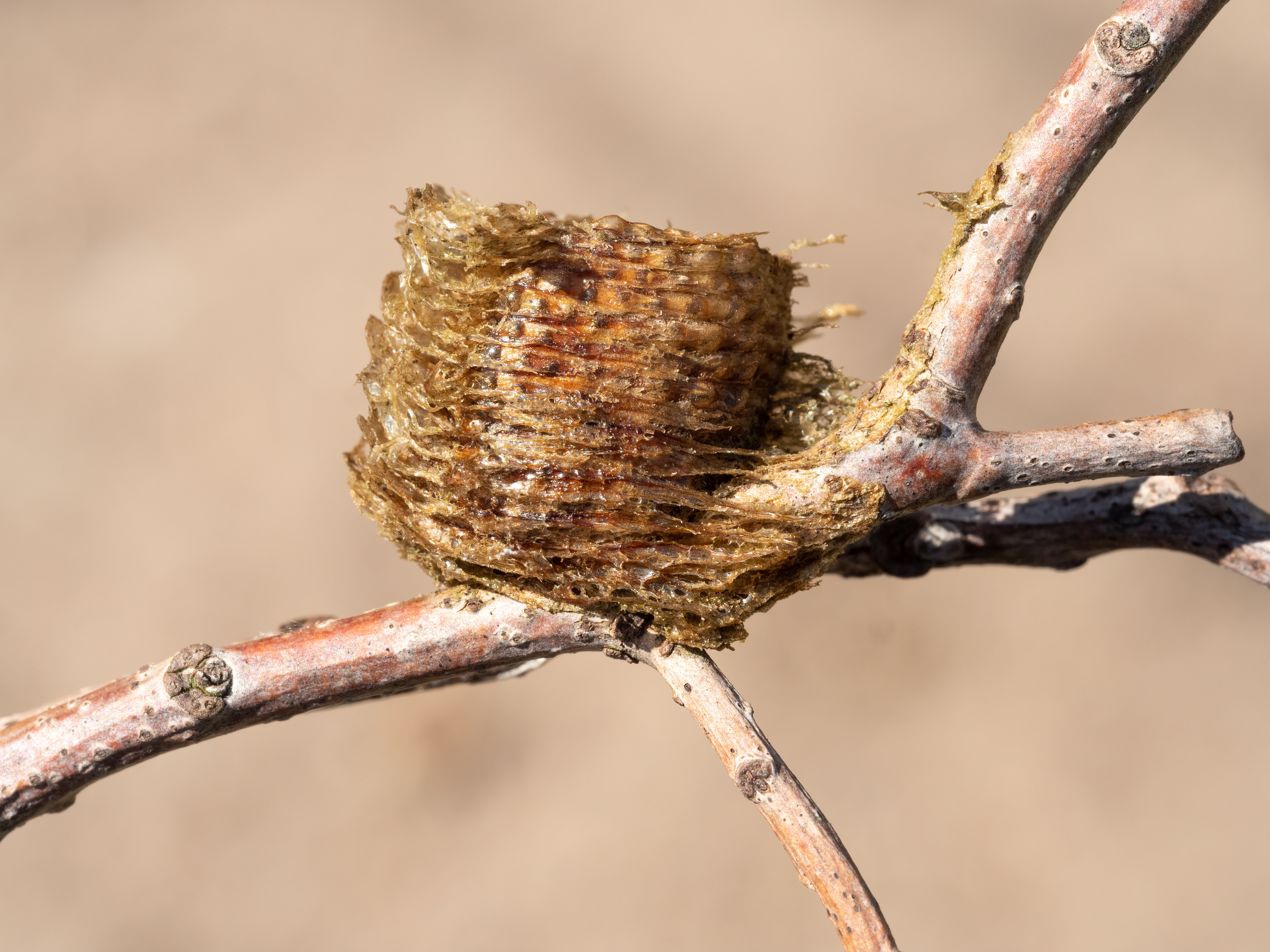 Mantis ootheca (egg mass) in Marine Park (Brooklyn, New York).